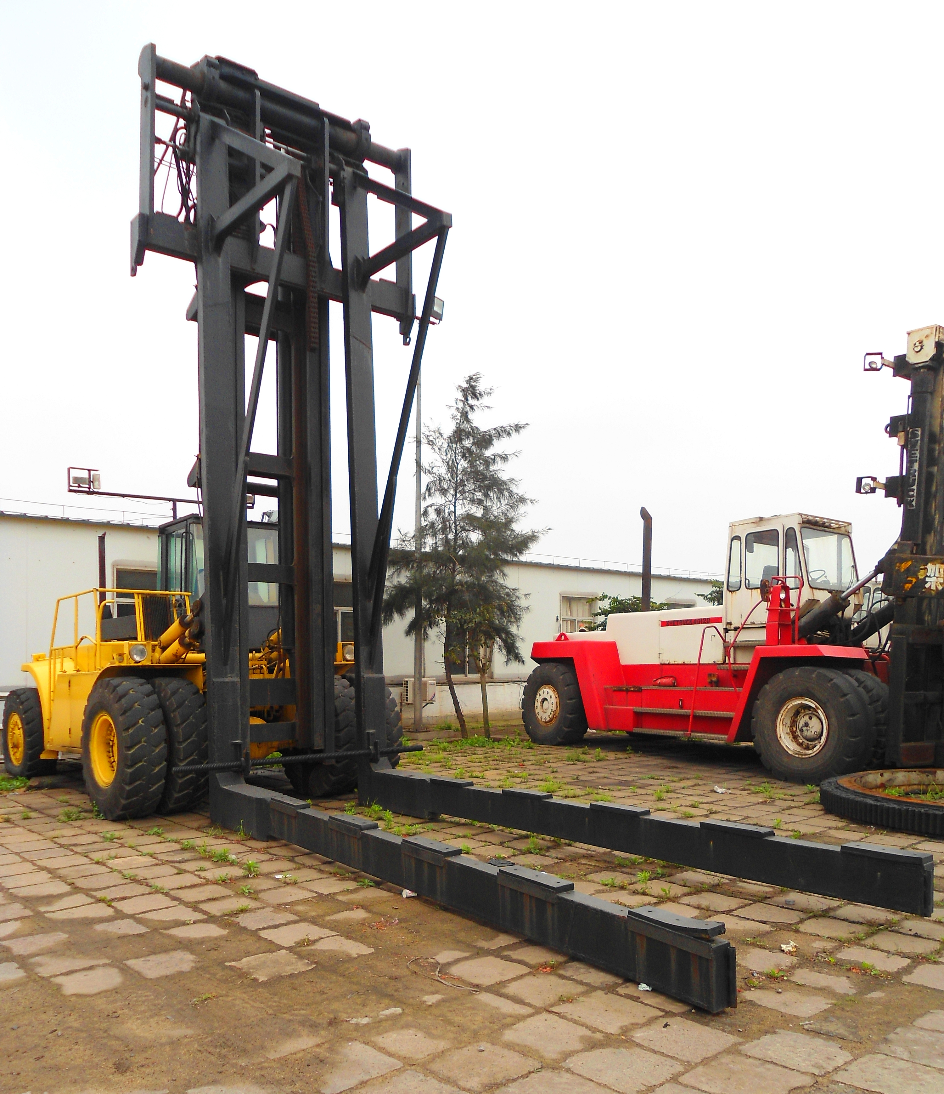 Straight mast container handler at Haikou Xiuying Port, Haikou, Hainan Province, People's Republic of China